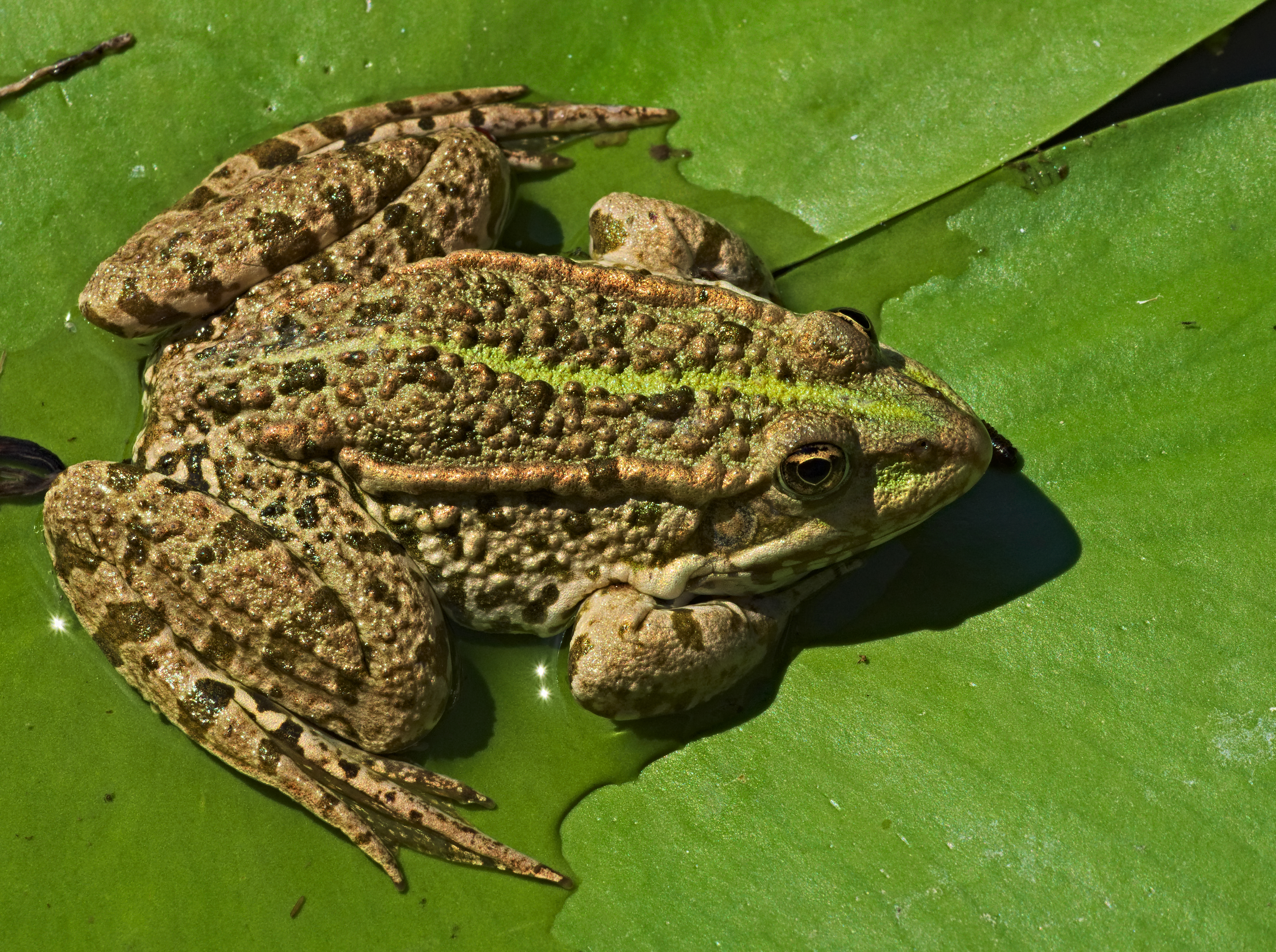 Marsh frog - Pelophylax ridibundus. Taken by the fishing ponds in Rimbach, Hesse, Germany.